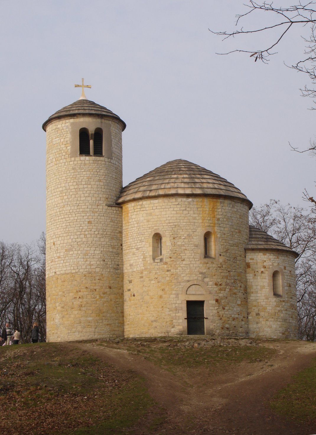 The rotunde of Saint George on the top of Říp Mountain in the Czech Republic